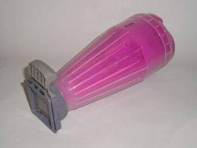 A colour toner bottle, photo by Asterion